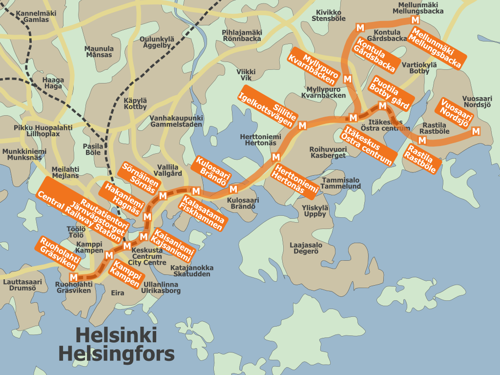 Map of the Helsinki Metro network in 2007. White letter 'M' on orange background signifies Metro stations. Portions of track that are underground are dashed with dark red. Both Finnish (top) and Swedish (bottom) names of the stations are shown.